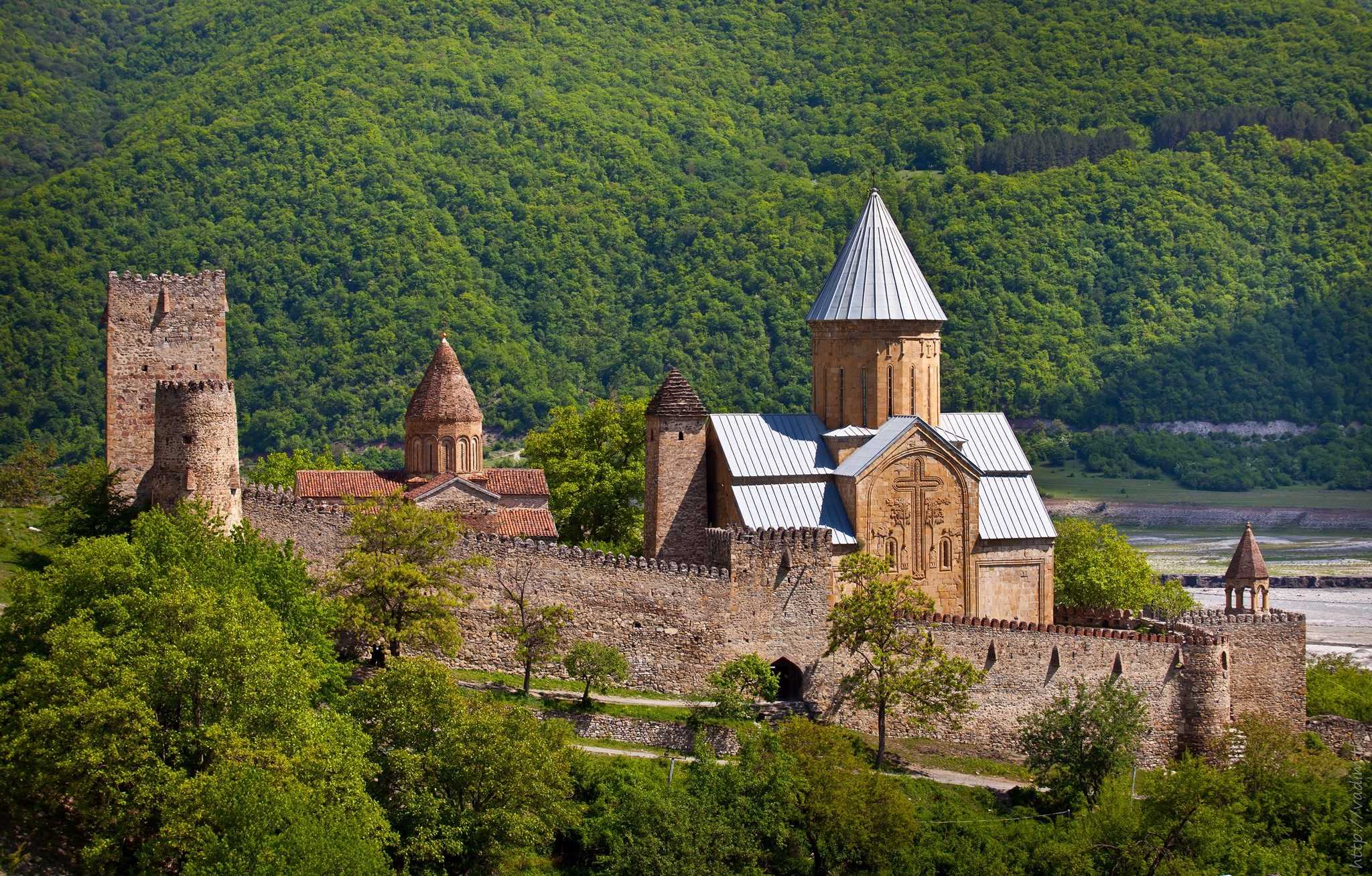 Georgian fortress Ananuri